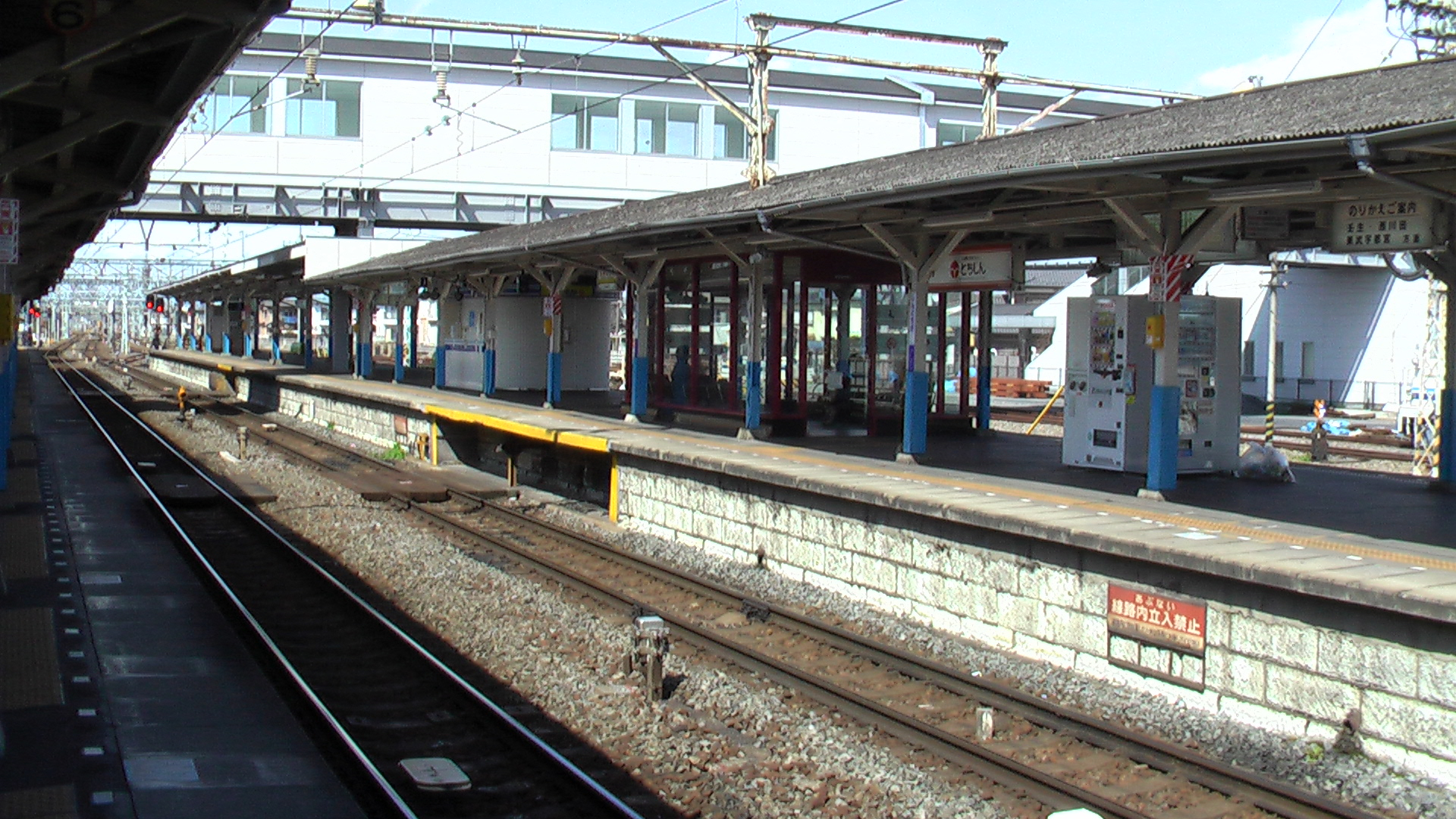 Shin-Tochigi Station in Tochigi, Tochigi Prefecture, Japan.